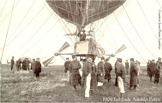 French postcard from 1906 showning in close-up the gondola of the airship "Patrie" taken from the front, showing the port and starboard propellers